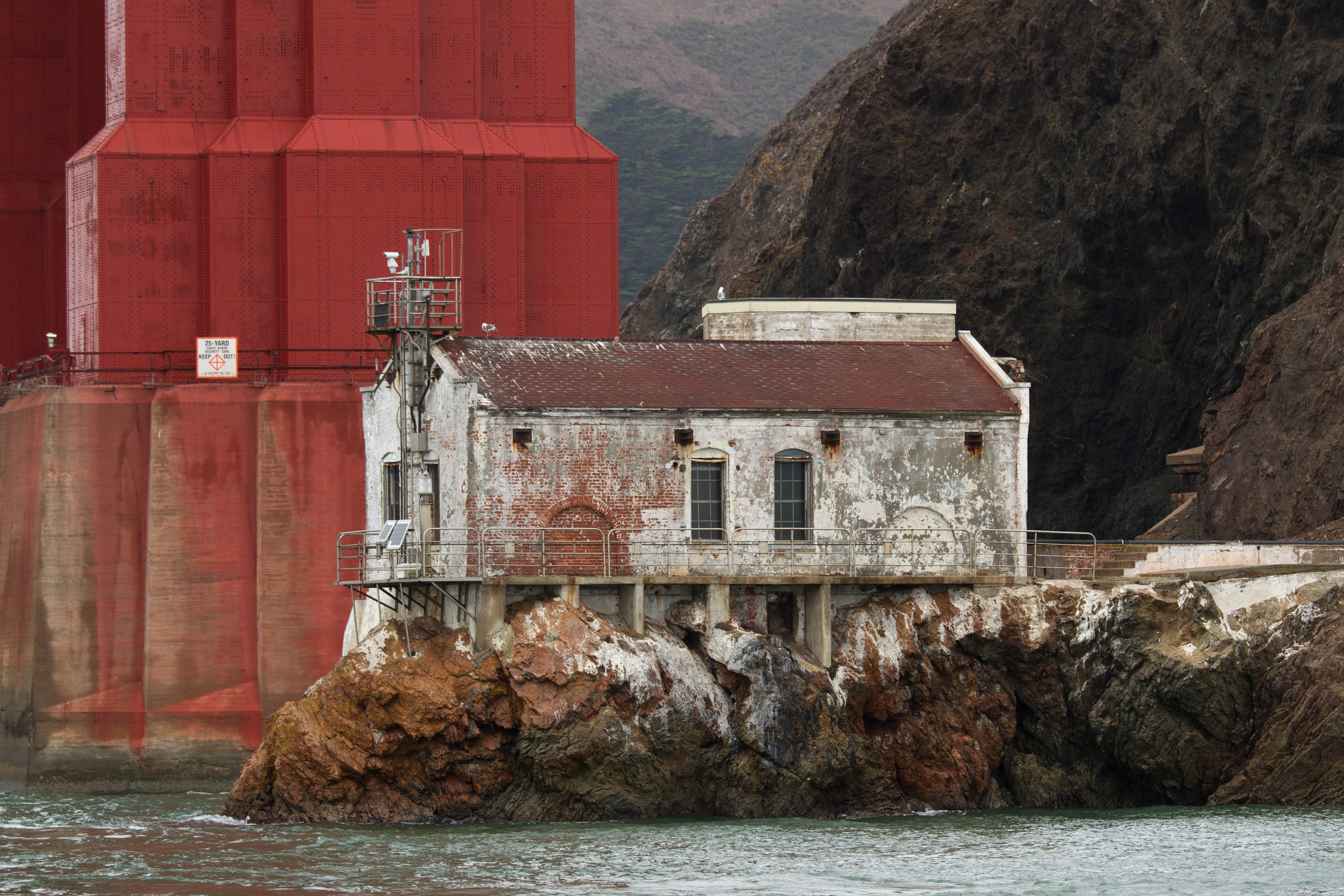 Lime Point Light Station beneath the Golden Gate Bridge in 2014